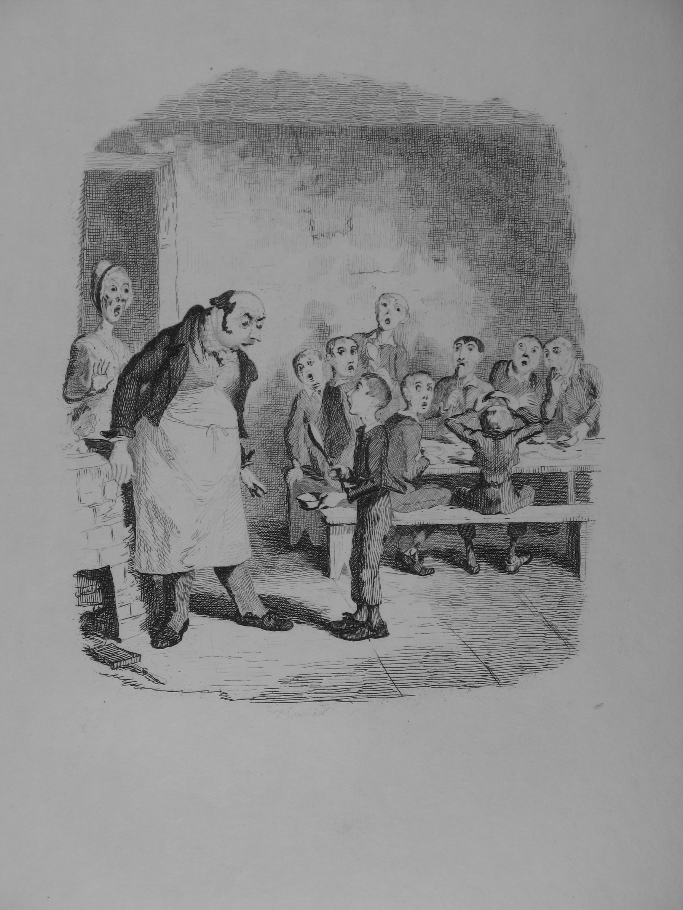 A photograph of an engraving in The Writings of Charles Dickens volume 4, Oliver Twist, titled "Oliver asking for more".